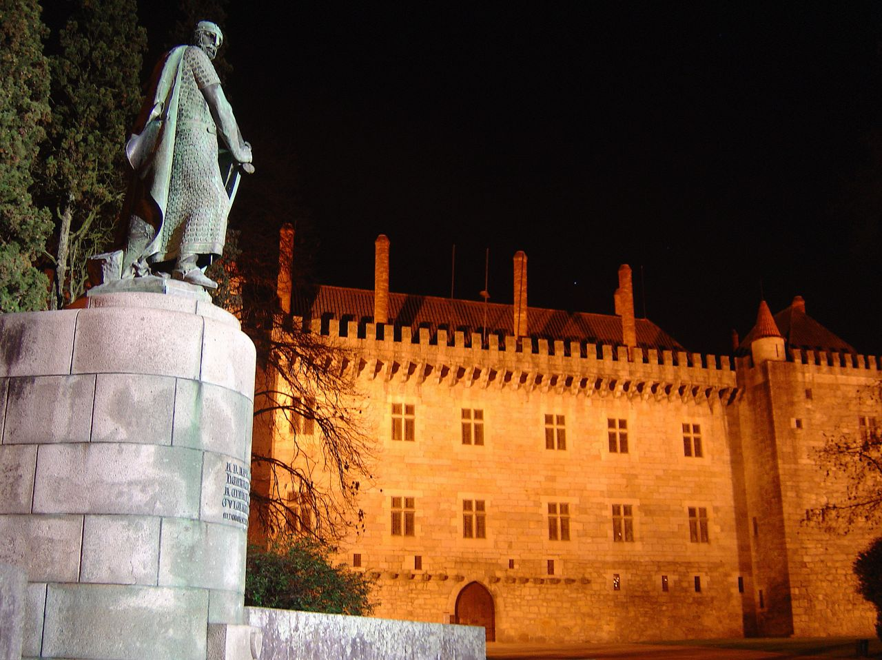 See where this picture was taken. [?]